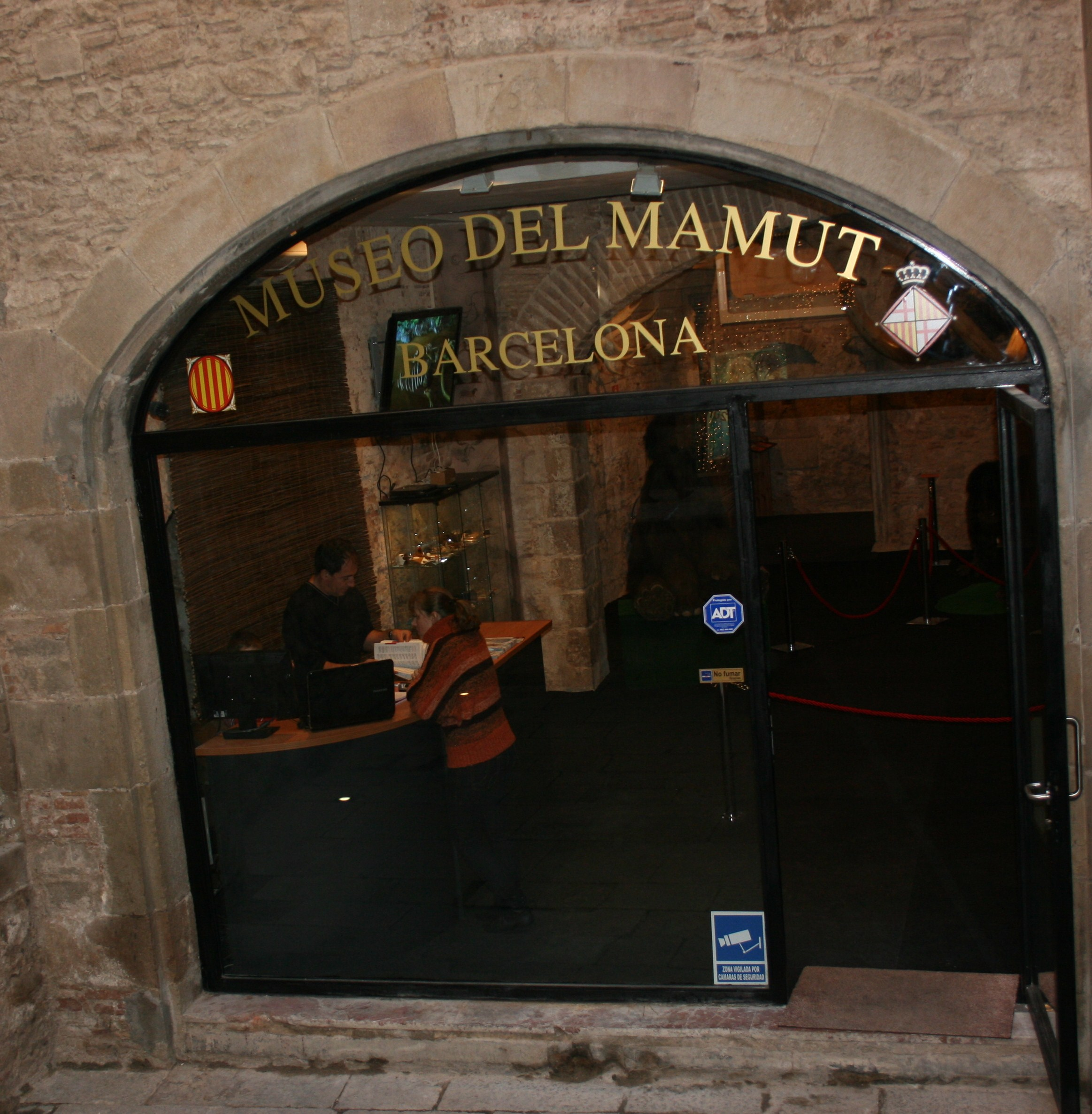 entrada del Museo del Mamut